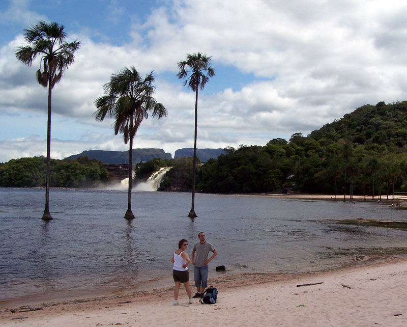 Tourists near Canaima Lagoon.